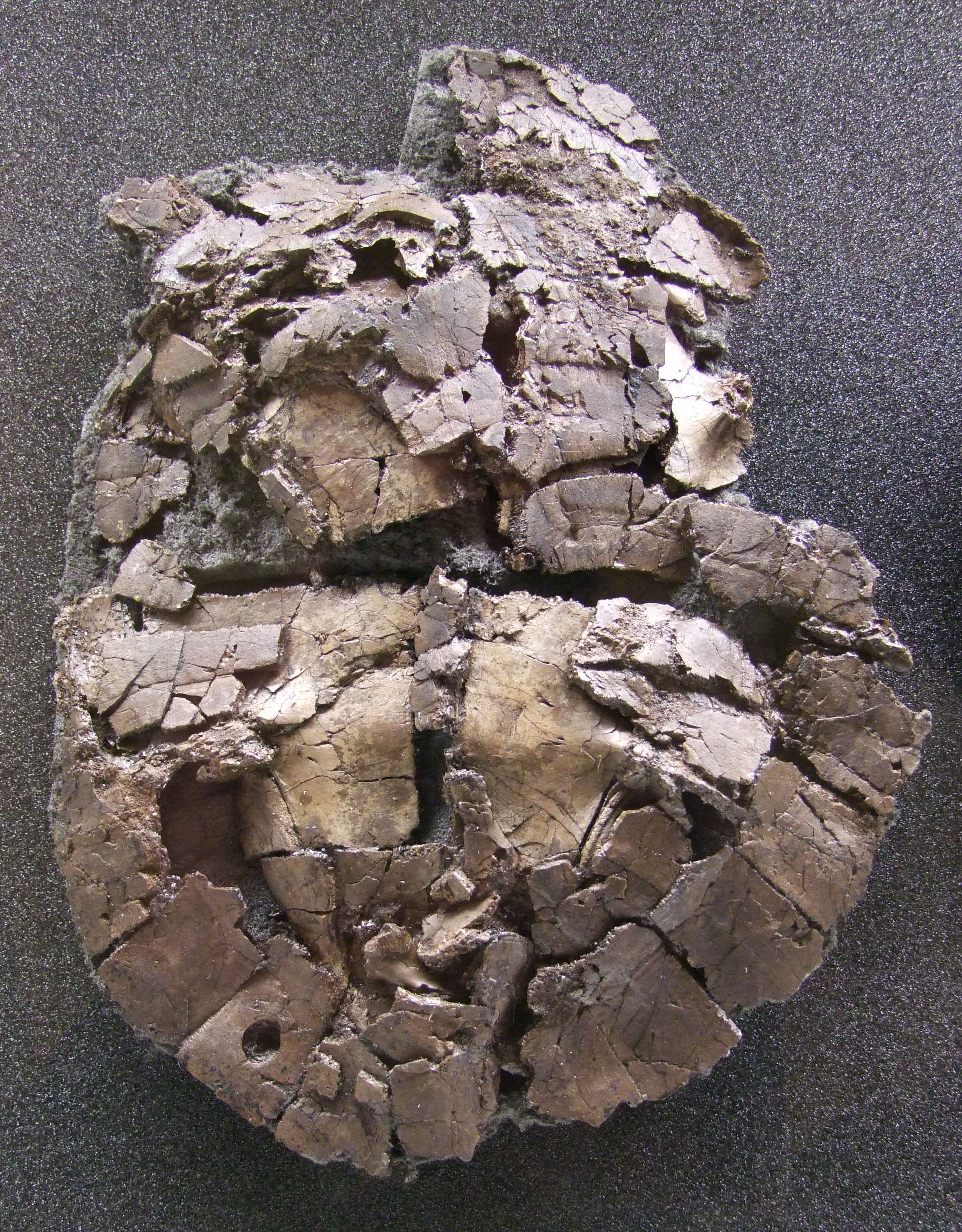 shell of Borkenia, formerly Chrysemys from the Eocene of the Geiseltal, Germany; took the picture in the Geiseltalmuseum, Halle (Saxony-Anhalt)